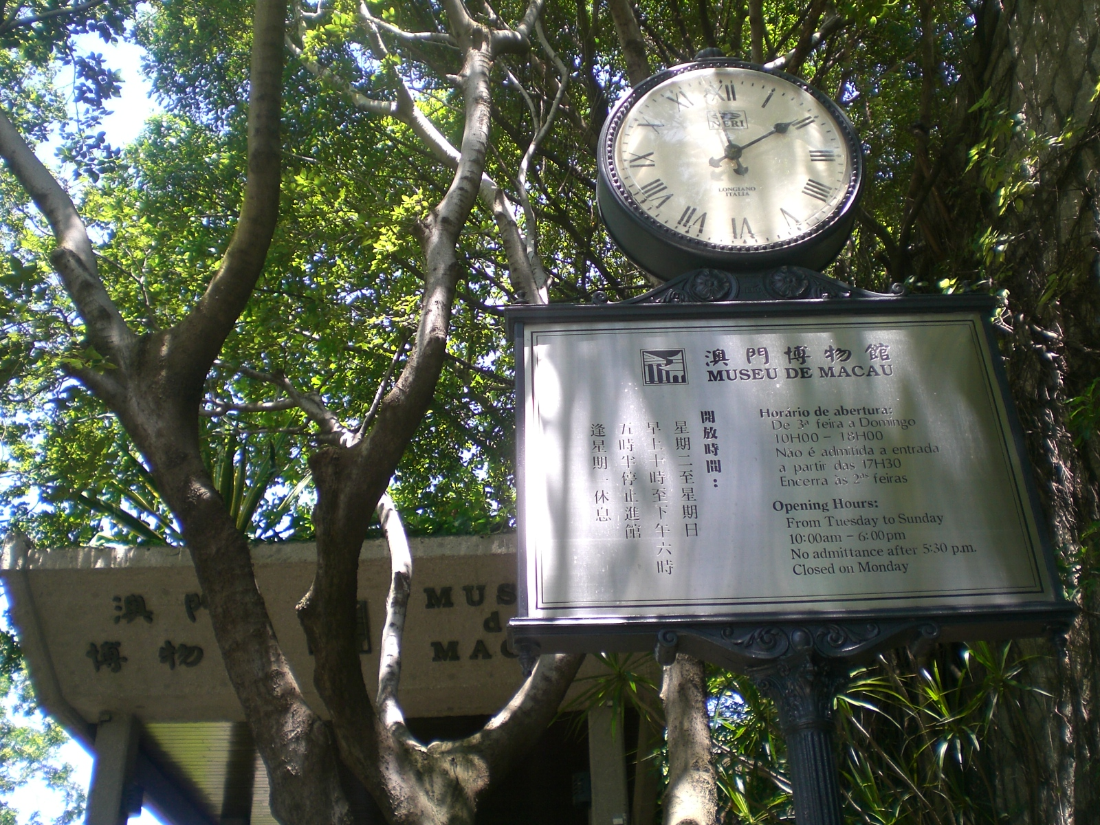 澳門博物館, Museum of Macau Photo author= Mo707